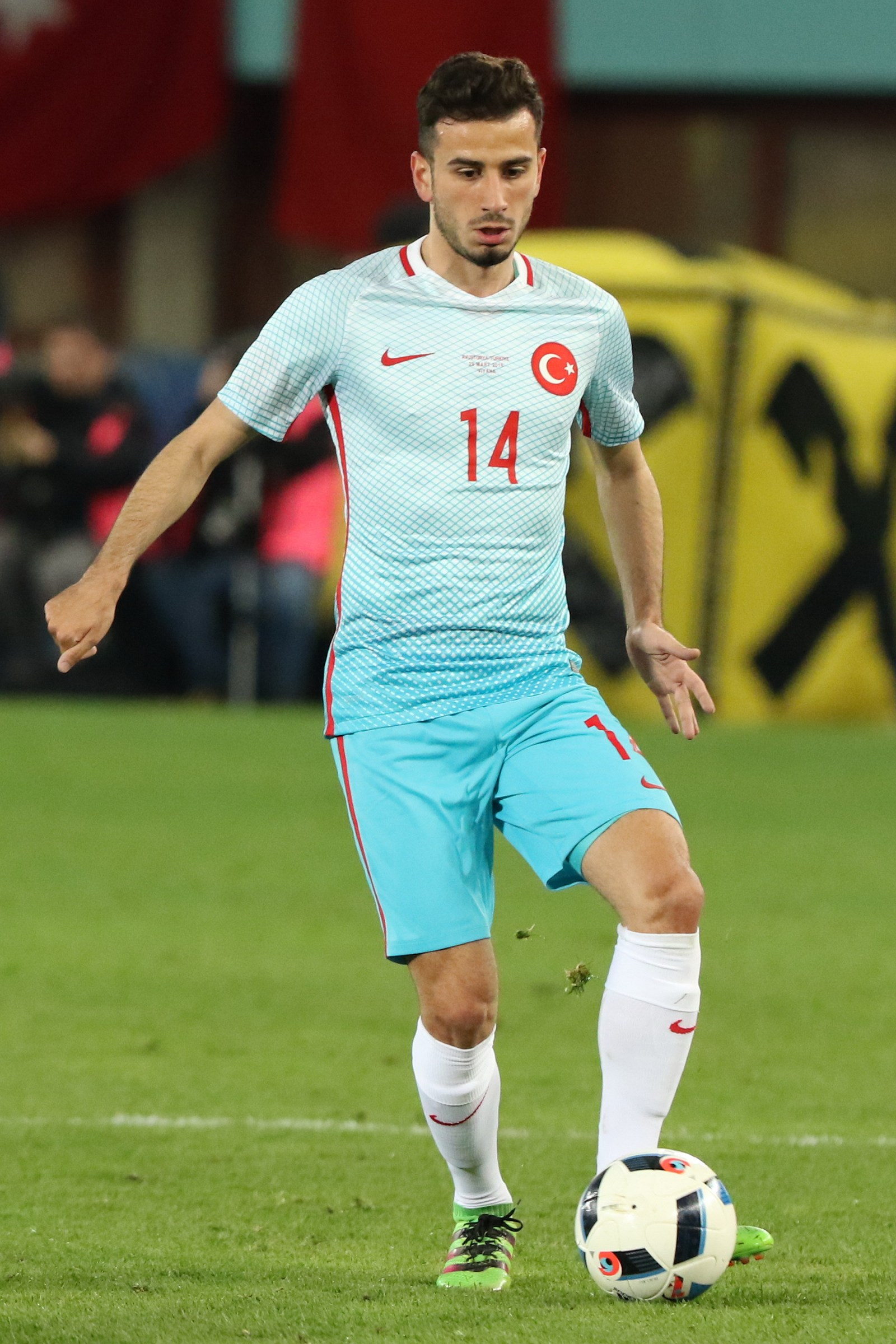 Friendly match – Austria (red shirts) vs. Turkey (blue shirts) 1–2 (1–1) on 2016-03-29 in Ernst-Happel-Stadion, Vienna – The photo shows Oğuzhan Özyakup (Beşiktaş).